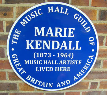 Commemorative blue plaque to the famous music hall star Marie Kendall.